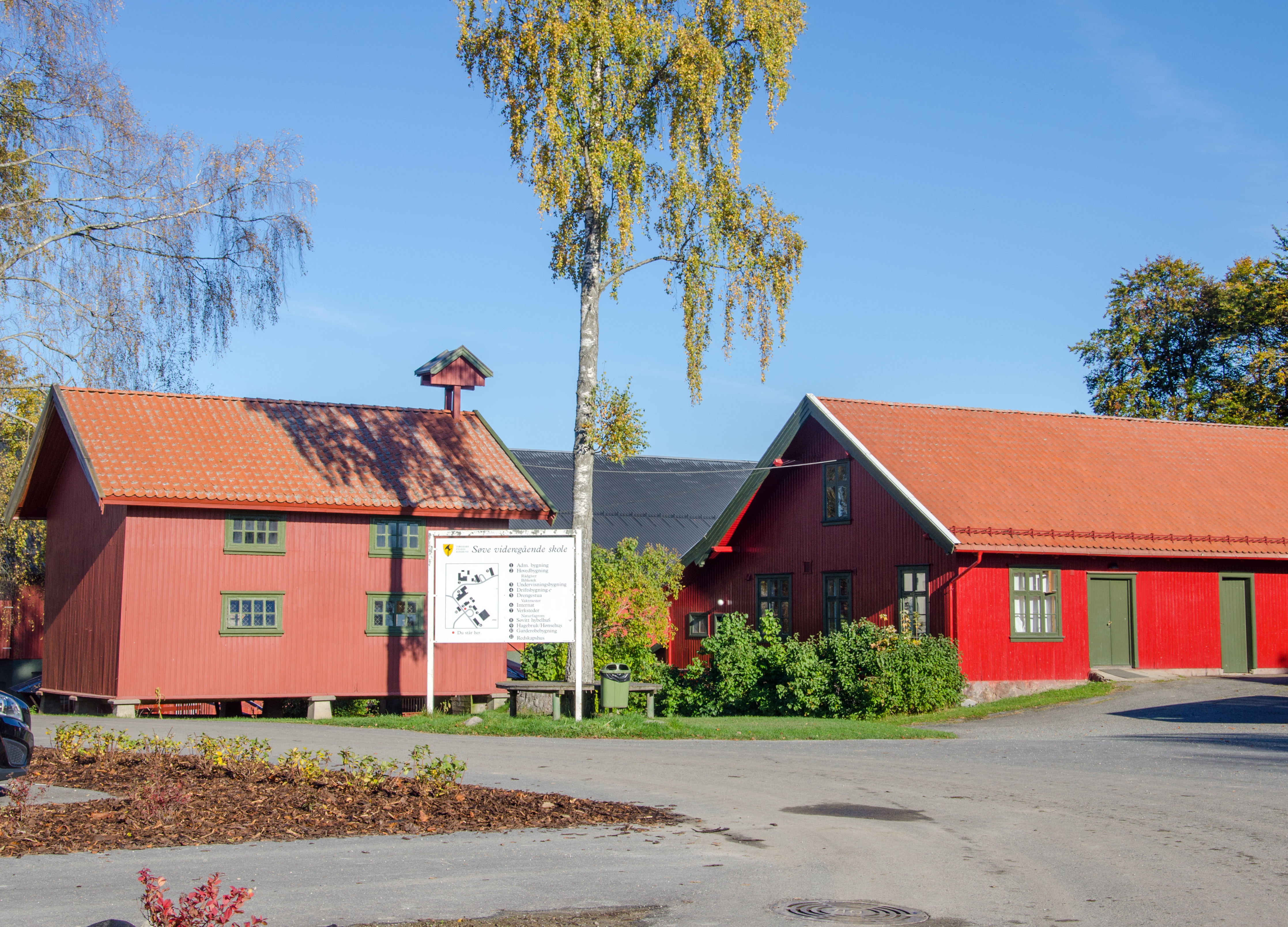 Søve videregående skole